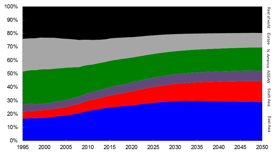 A chart showing the project share of global GDP (purchasing power parity) to 2050